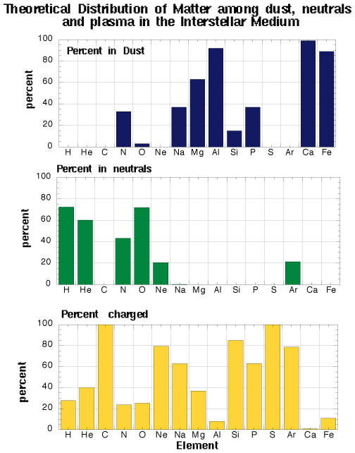 Bar charts of theoretical matter distribution in interstellar medium (dust, neutrals and plasma)